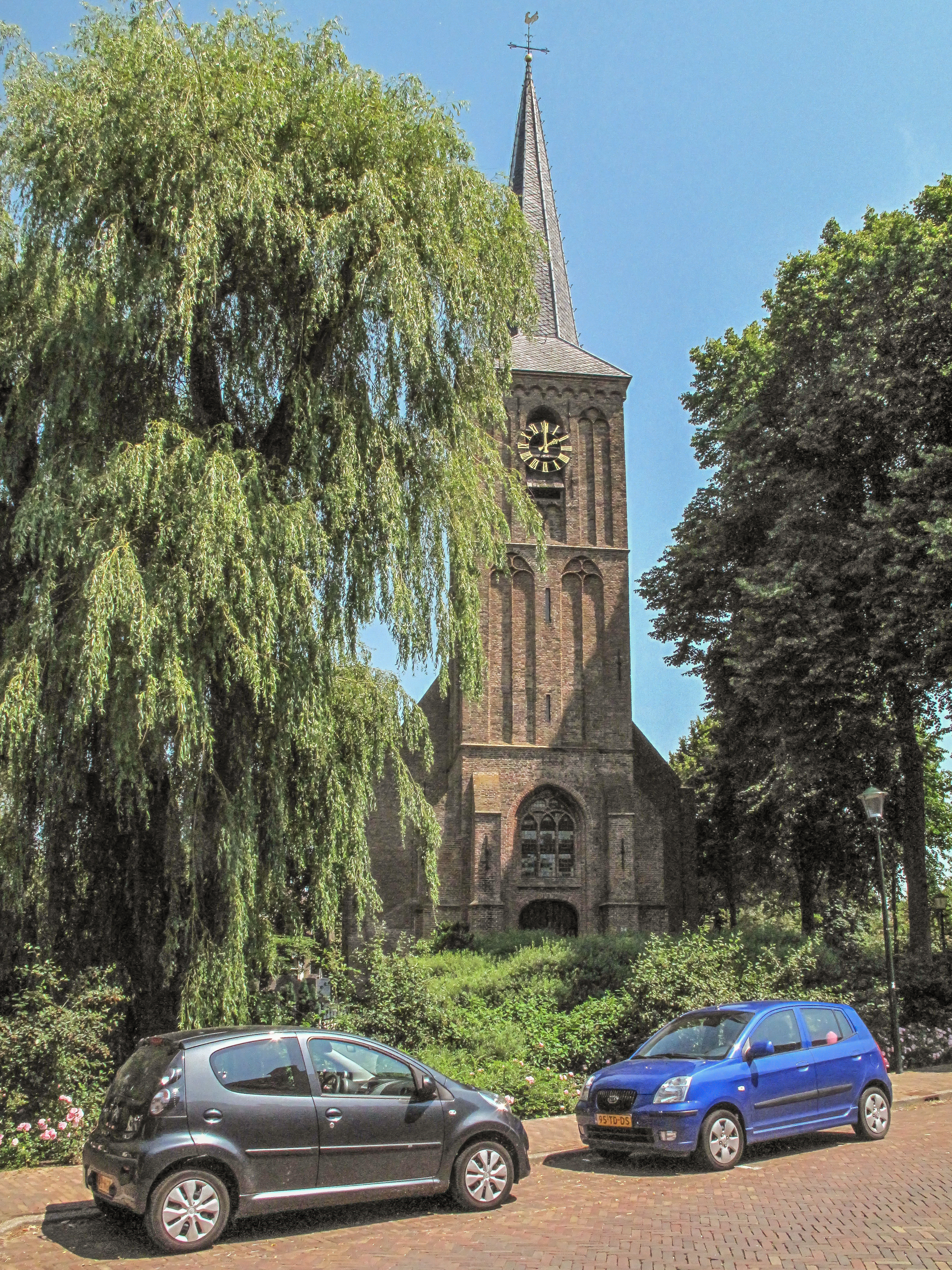 Berkenwoude, reformed church